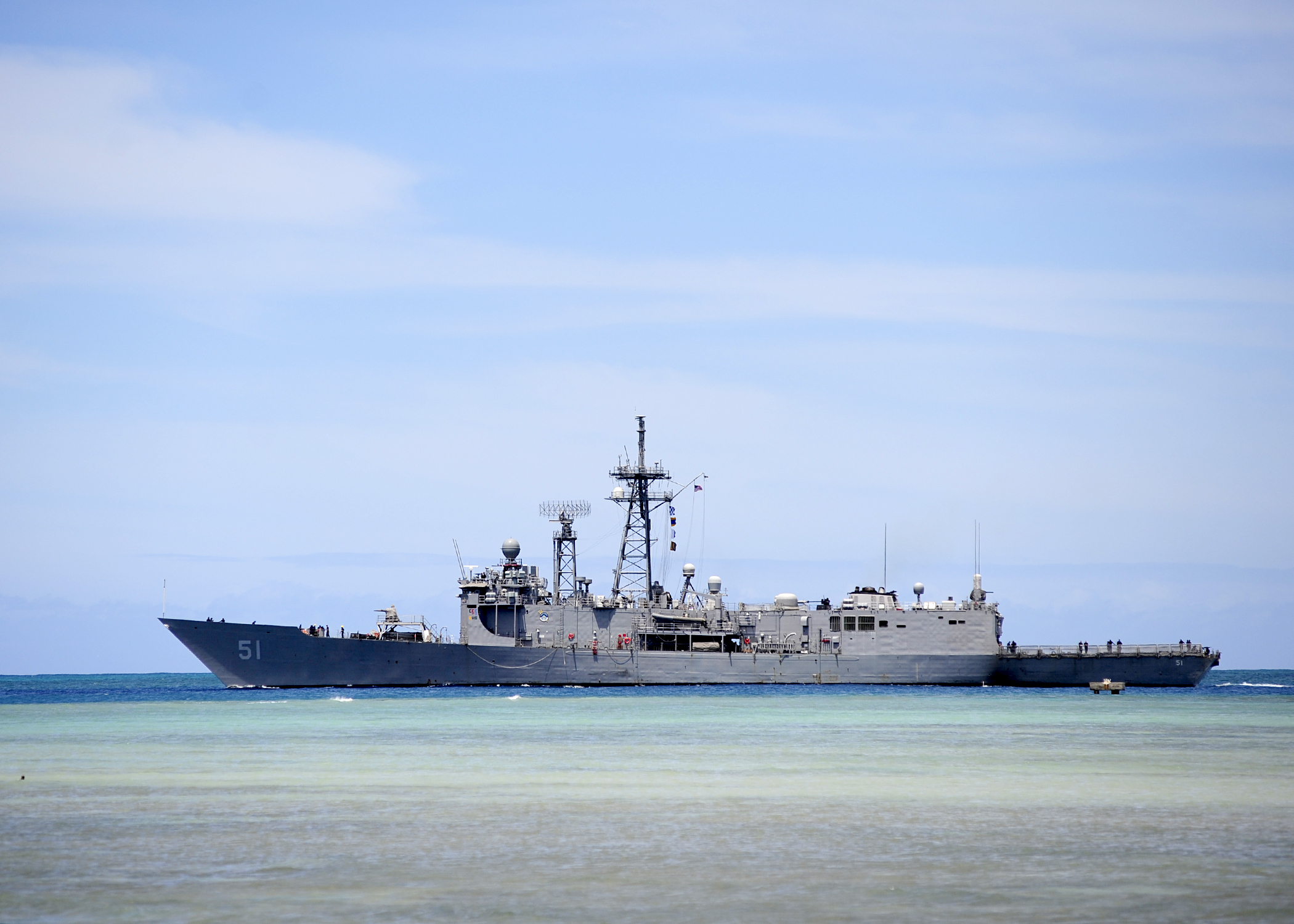 The U.S. Navy frigate USS Gary (FFG-51) departs Pearl Harbor, Hawaii (USA), to participate in the at-sea phase of Rim of the Pacific (RIMPAC) 2014.